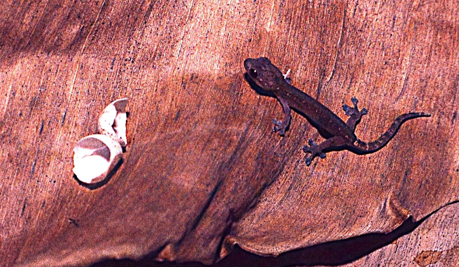 Newborn Night Gekko (Hemiphyllodactylus typus), Mauritius